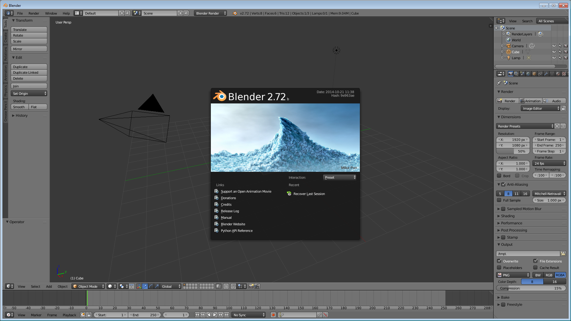 Blender 2.72b